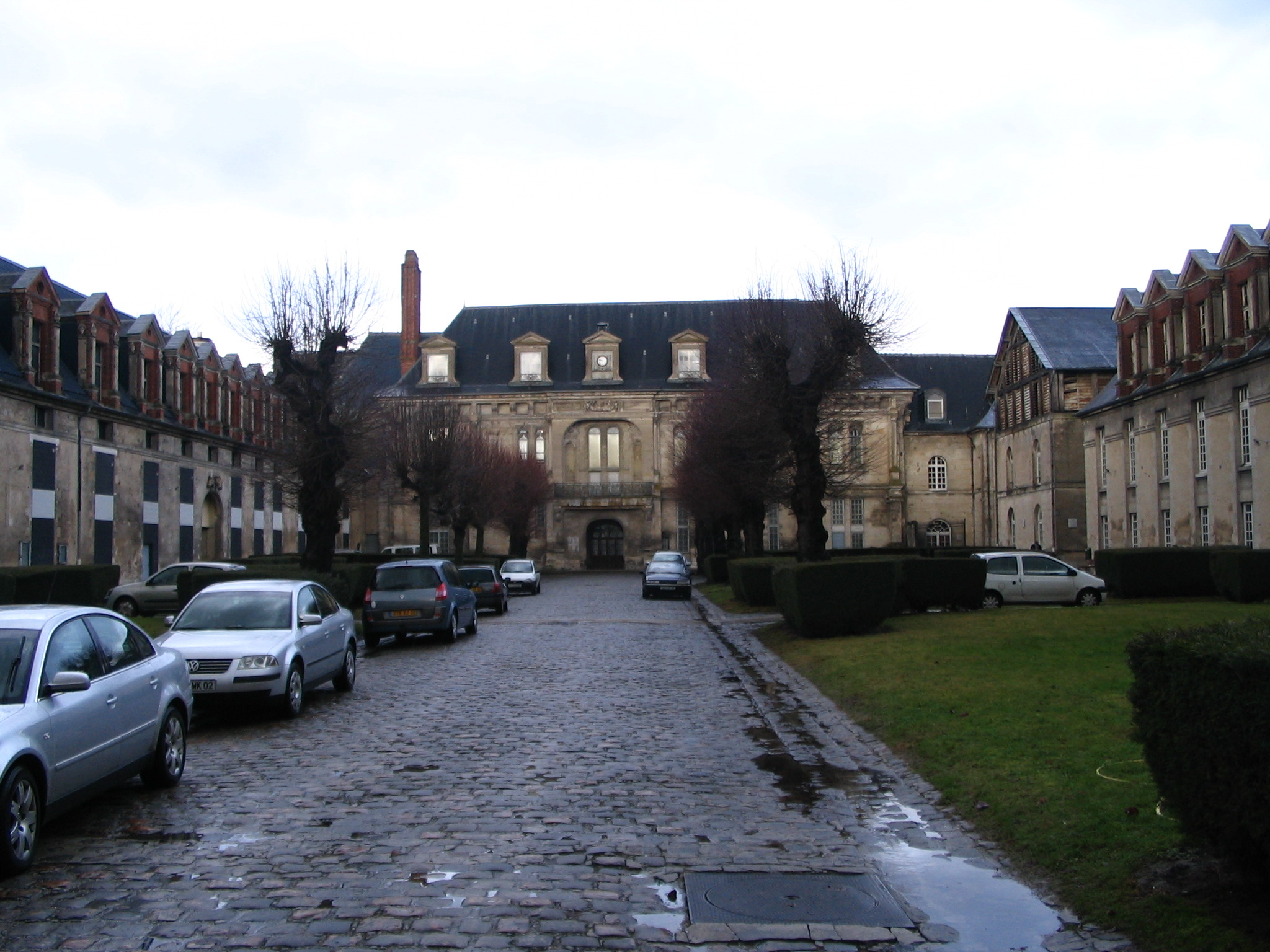 The Francis I castle of Villers-Cotterêts, Aisne, France.